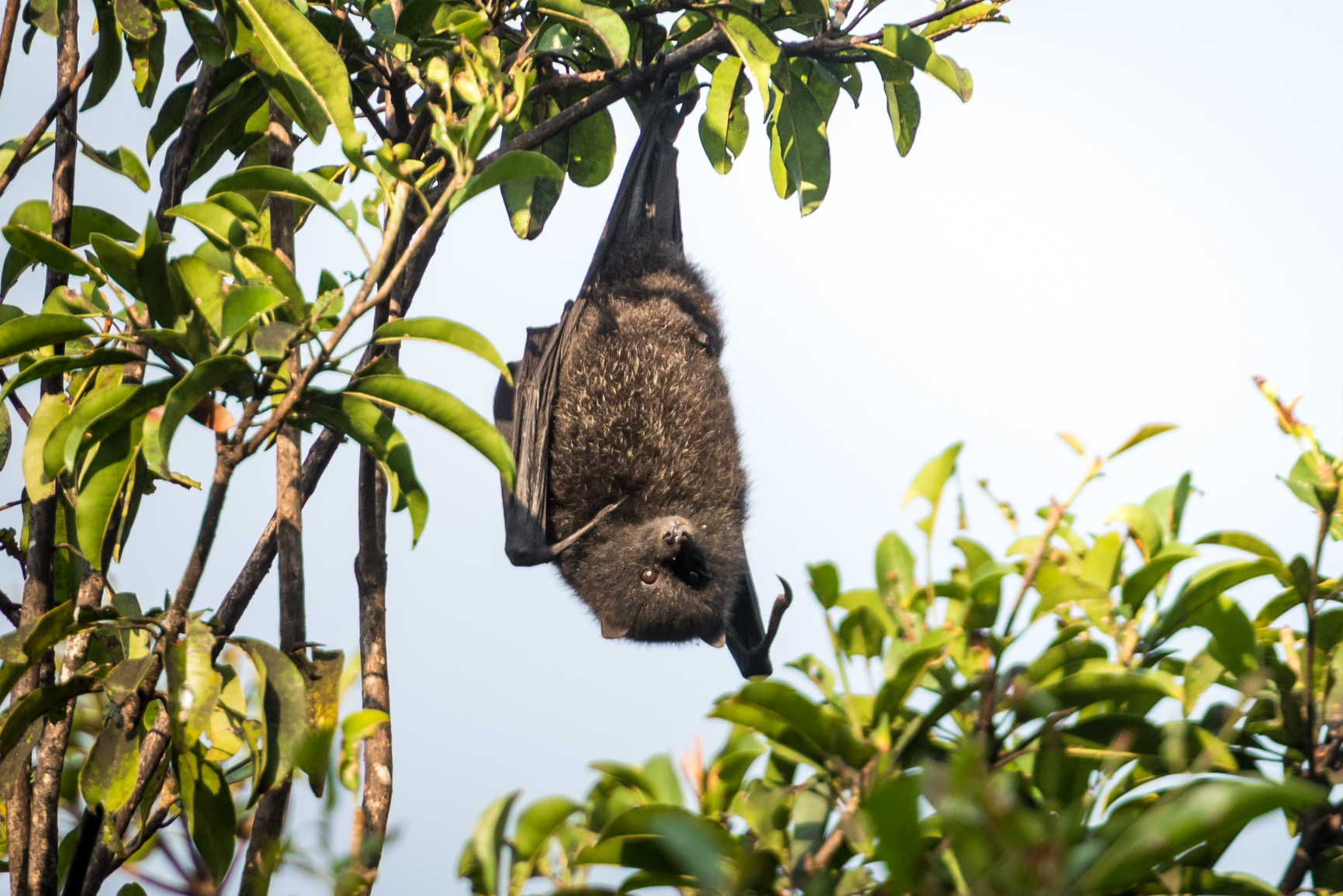 A picture of a male Christmas Island flying-fox (Pteropus melanotus natalis), taken on Christmas Island